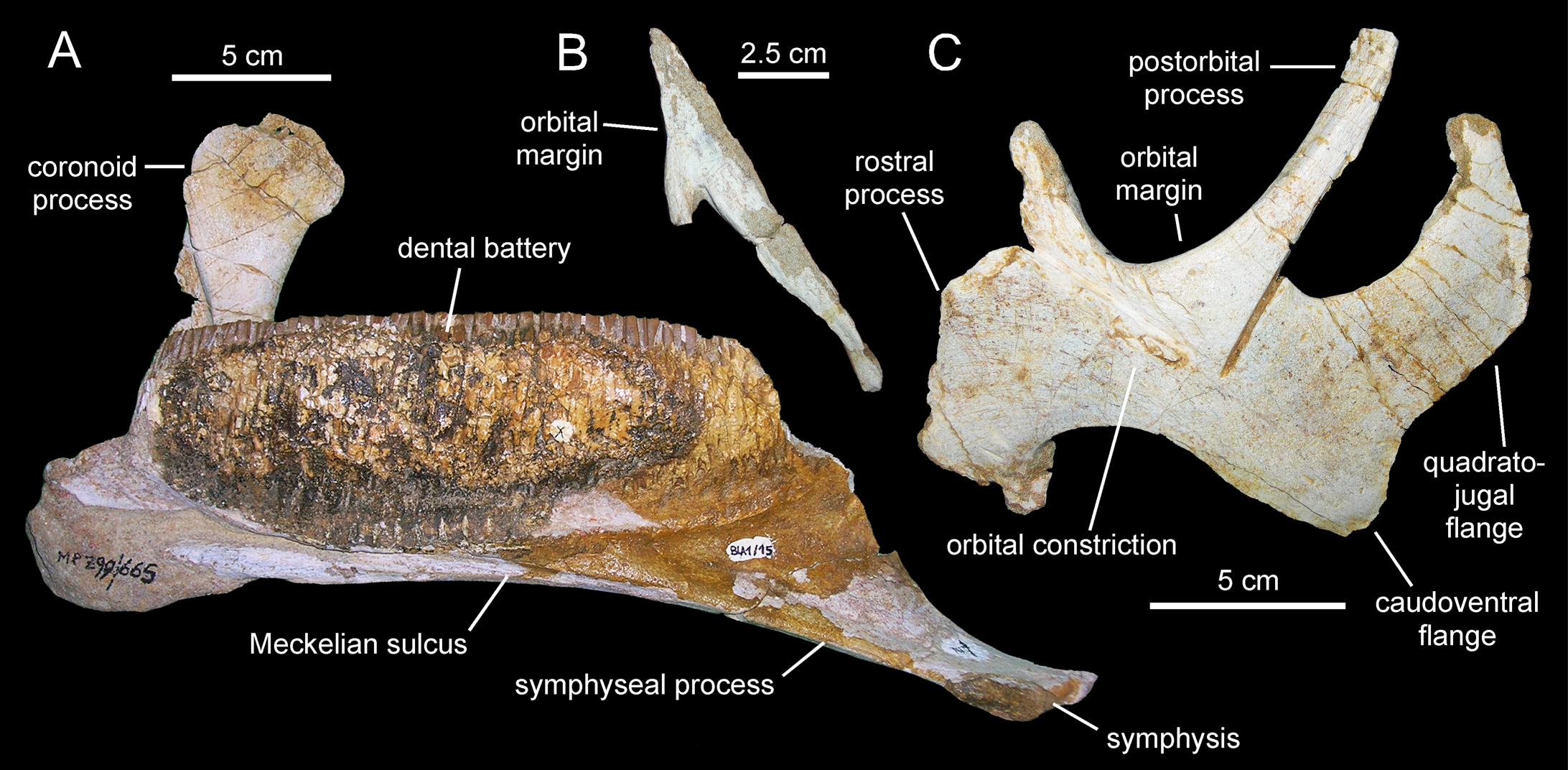 Left dentary of Blasisaurus canudoi (MPZ 99/665) in medial view. B. Right lacrimal of B. canudoi (MPZ 2009/348) in lateral view. C. Left jugal of B. canudoi (MPZ 99/667) in lateral view.